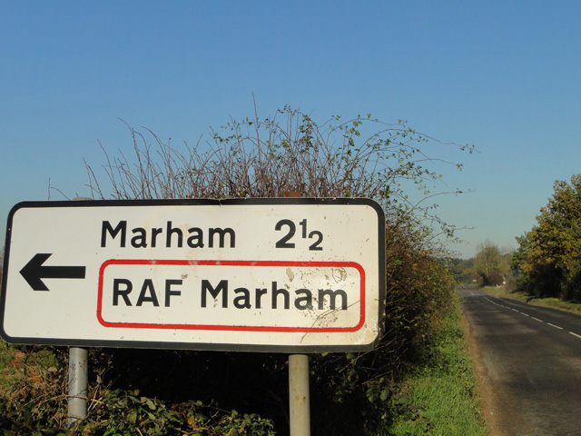 Sign to Marham and RAF Marham